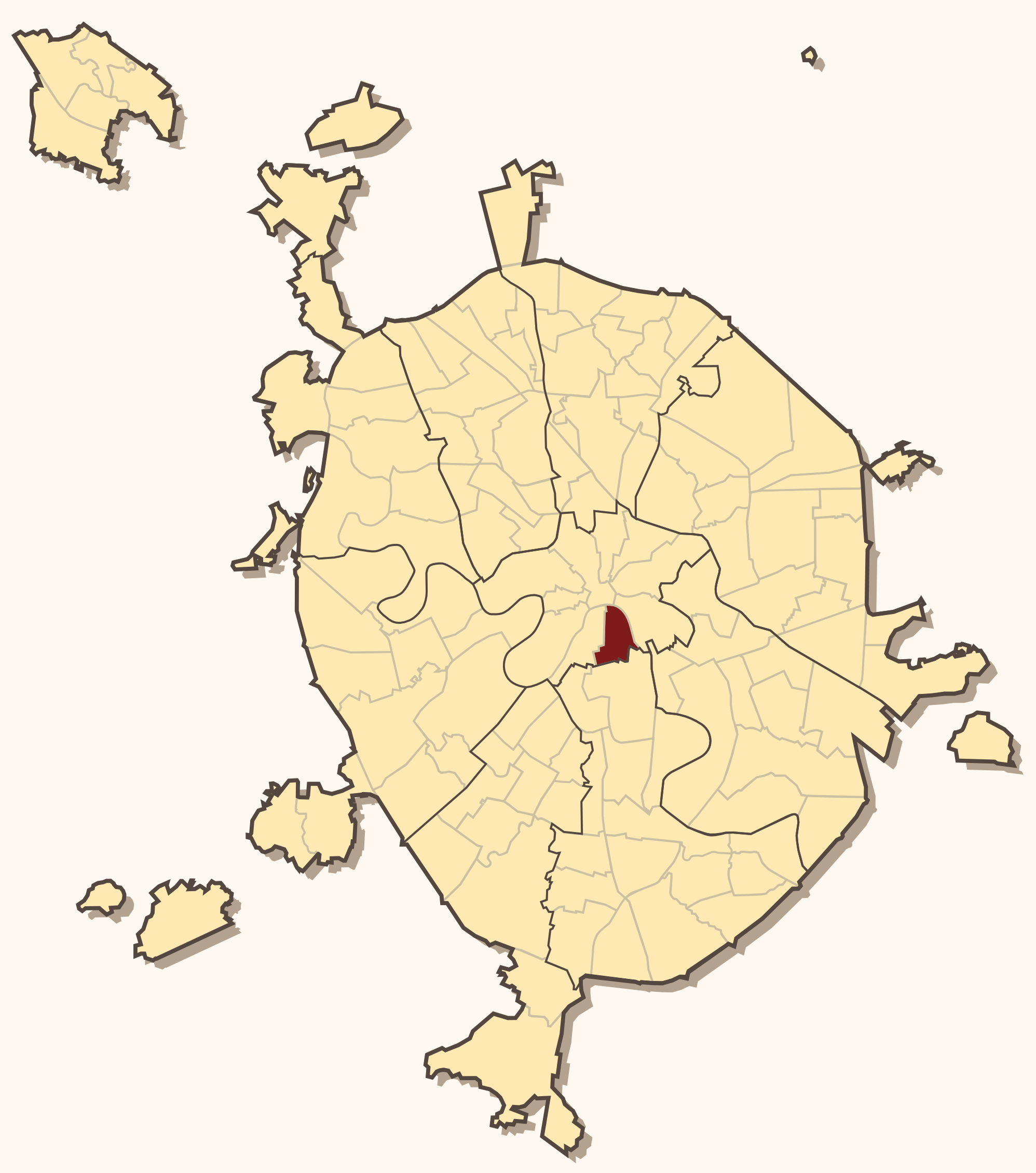 Moscow districts map